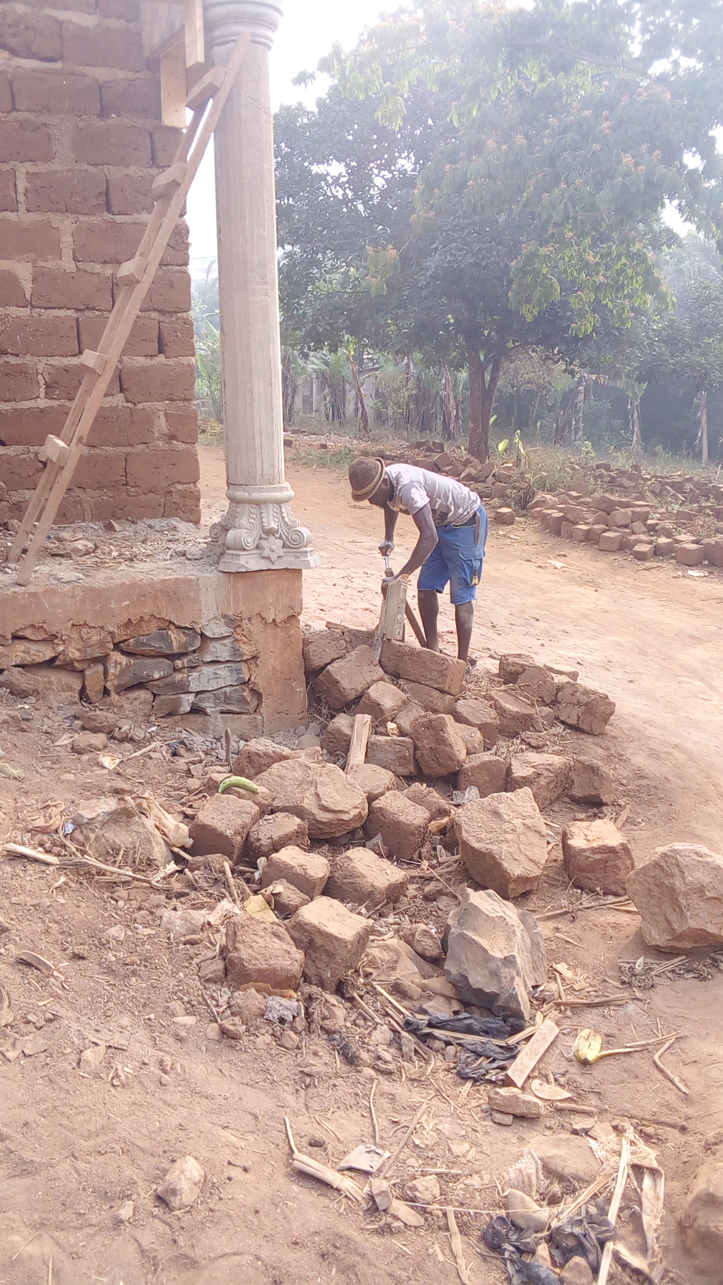 This is an image with the theme "Play" from: Cameroon